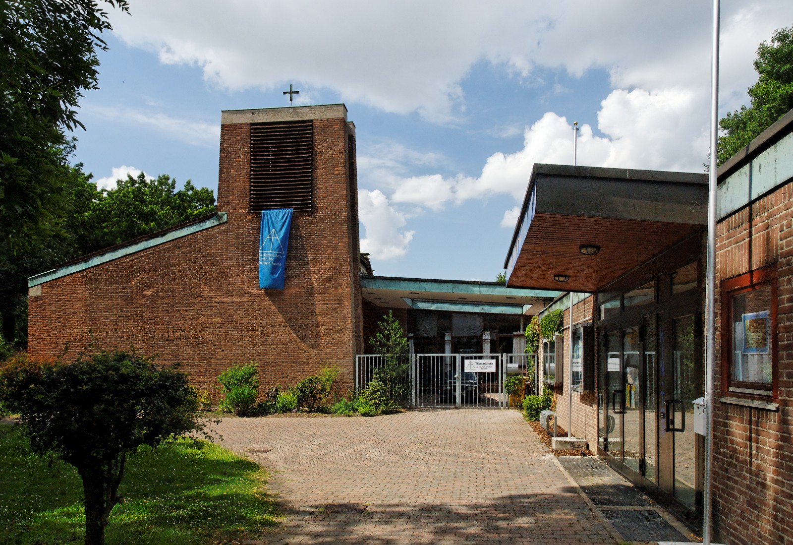 Thomas Church in Düsseldorf-Reisholz, Germany